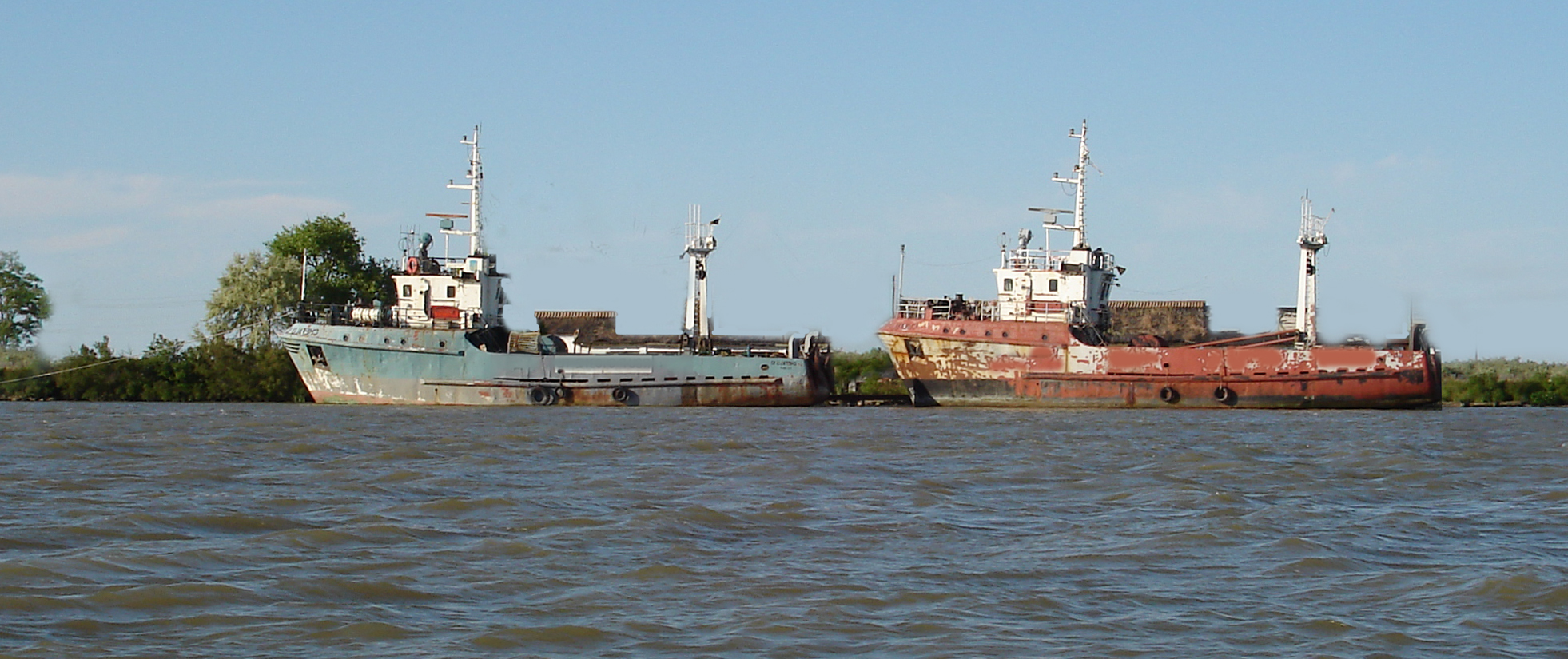 Old romanian trawlerships